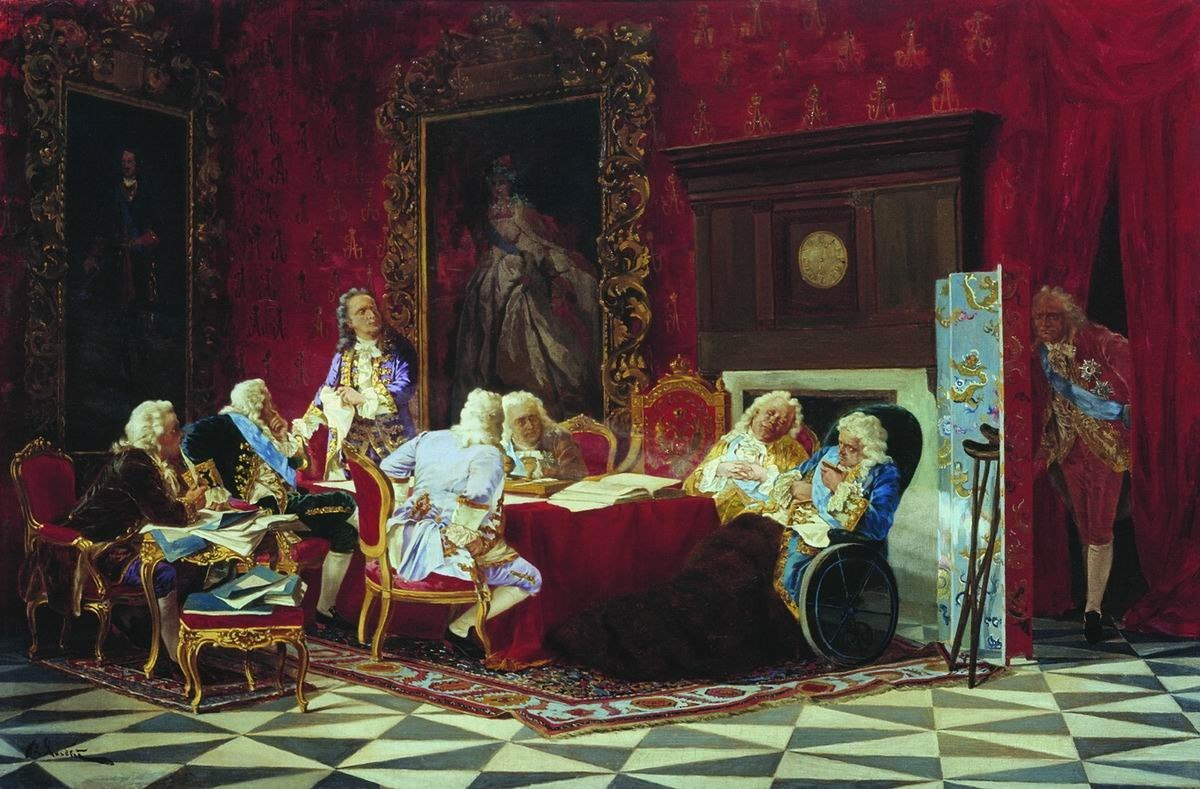 Valery Jacobi (1834-1902) Ministers Cabinet of Empress Anna Ivanovna